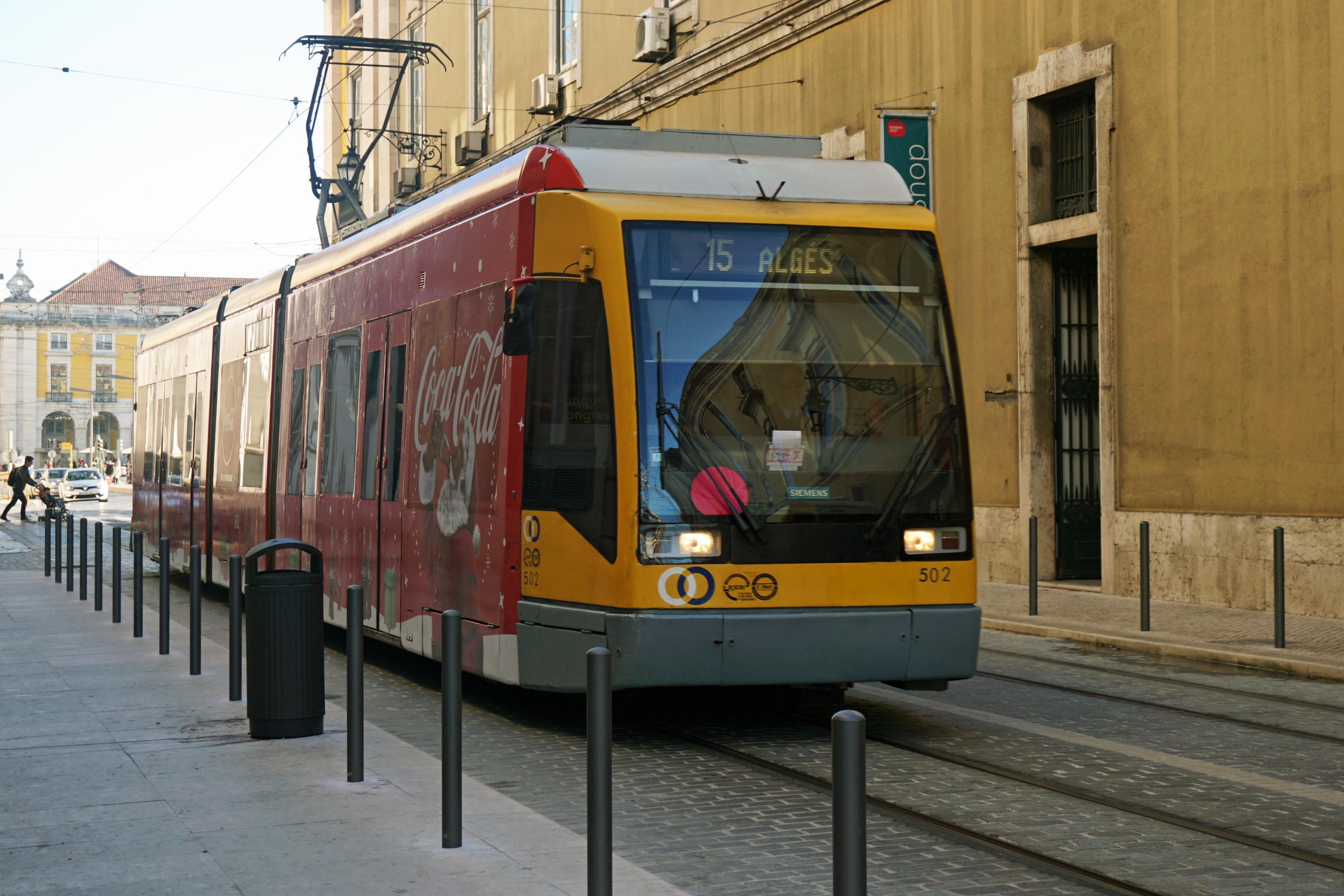 Carris tram route 15 at Rua do Arsenal, Lisbon